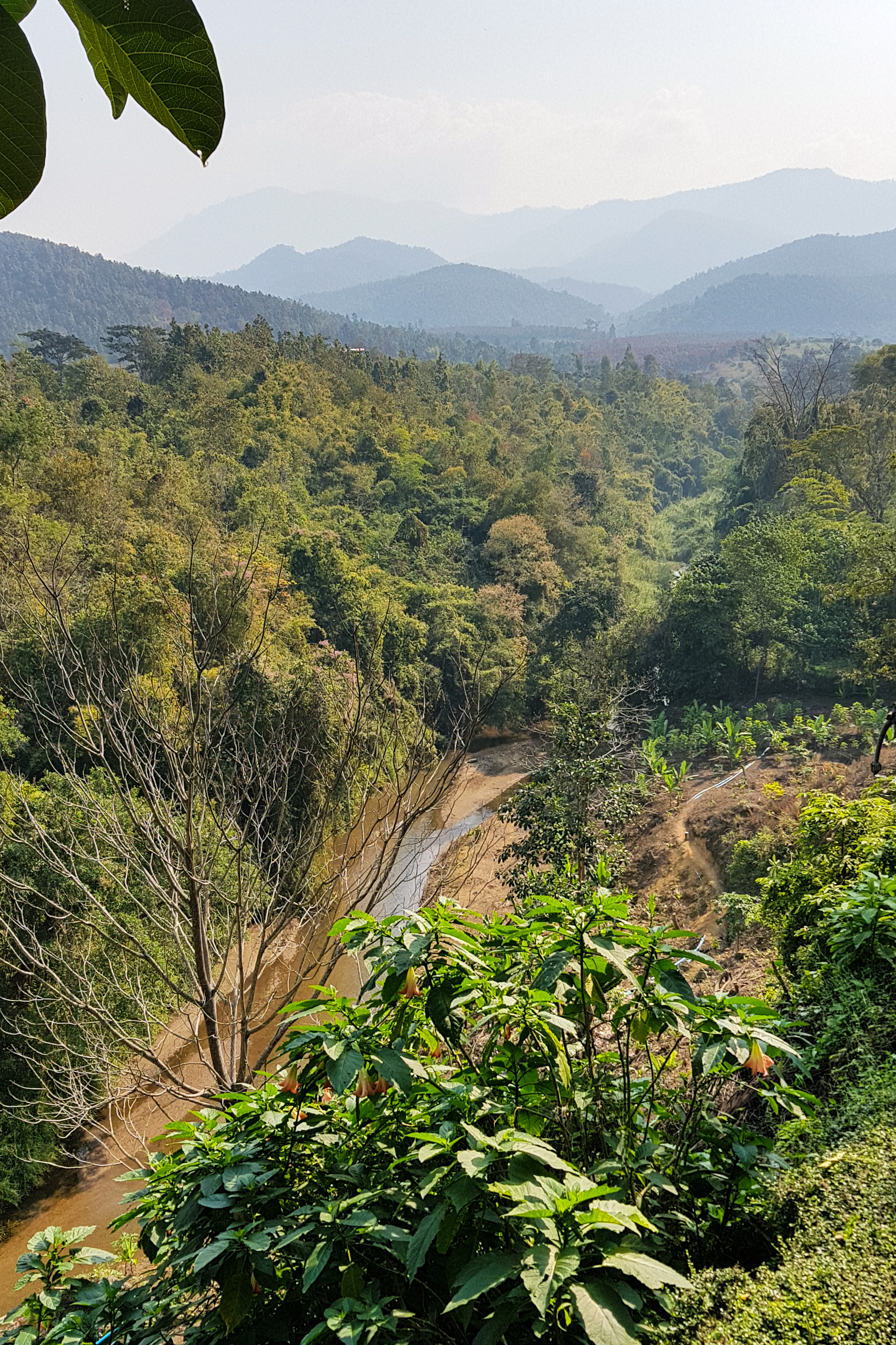 The Fang River in Chai Prakan District. View from behind the Esso petrol station in Si Don Yen along highway number 107.